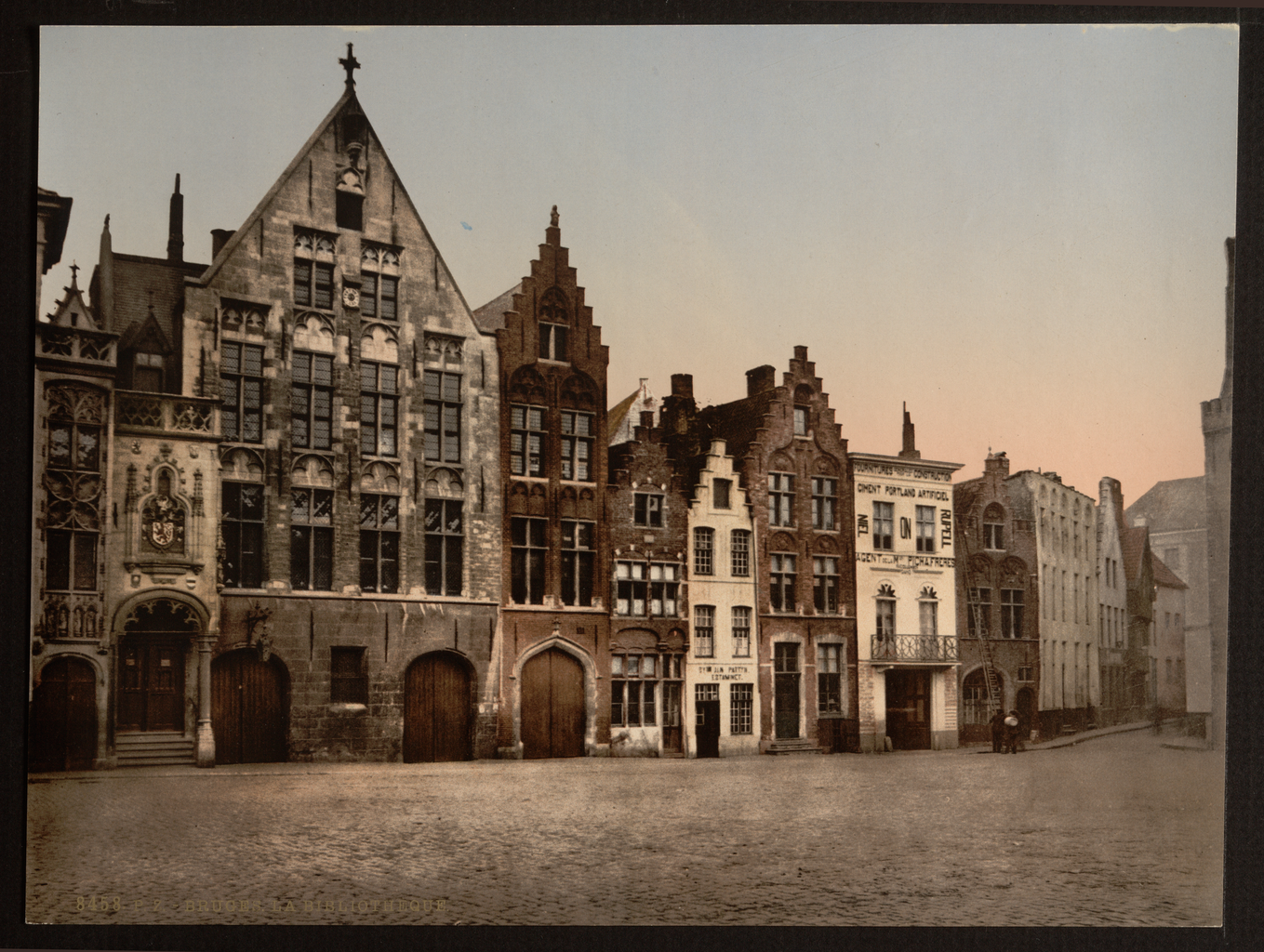 This photochrome print of the municipal library in Bruges is part of “Views of Architecture and Other Sites in Belgium” from the catalog of the Detroit Publishing Company (1905). The library, which houses the municipal archives of Bruges, was restored by the Belgian architect Louis de la Censerie (1838–1909) in 1877–81. Its neo-Renaissance architecture, which recalls a 17th-century aesthetic, is reflected in the use of the stepped-gable façades on the roof. According to Baedeker’s Belgium and Holland including the Grand-Duchy of Luxembourg (1905), “the Municipal Library, which is now established in the ancient Tonlieu, or custom-house of 1477 . . . contains 60,000 vols., including 562 old [manuscripts] (comprising missals of the 13–14th cent.), the first books printed by Colard Mansion, the printer of Bruges (1475–84), and a collection of engravings.” Archives; Gables; Libraries; Renaissance revival (Architecture)